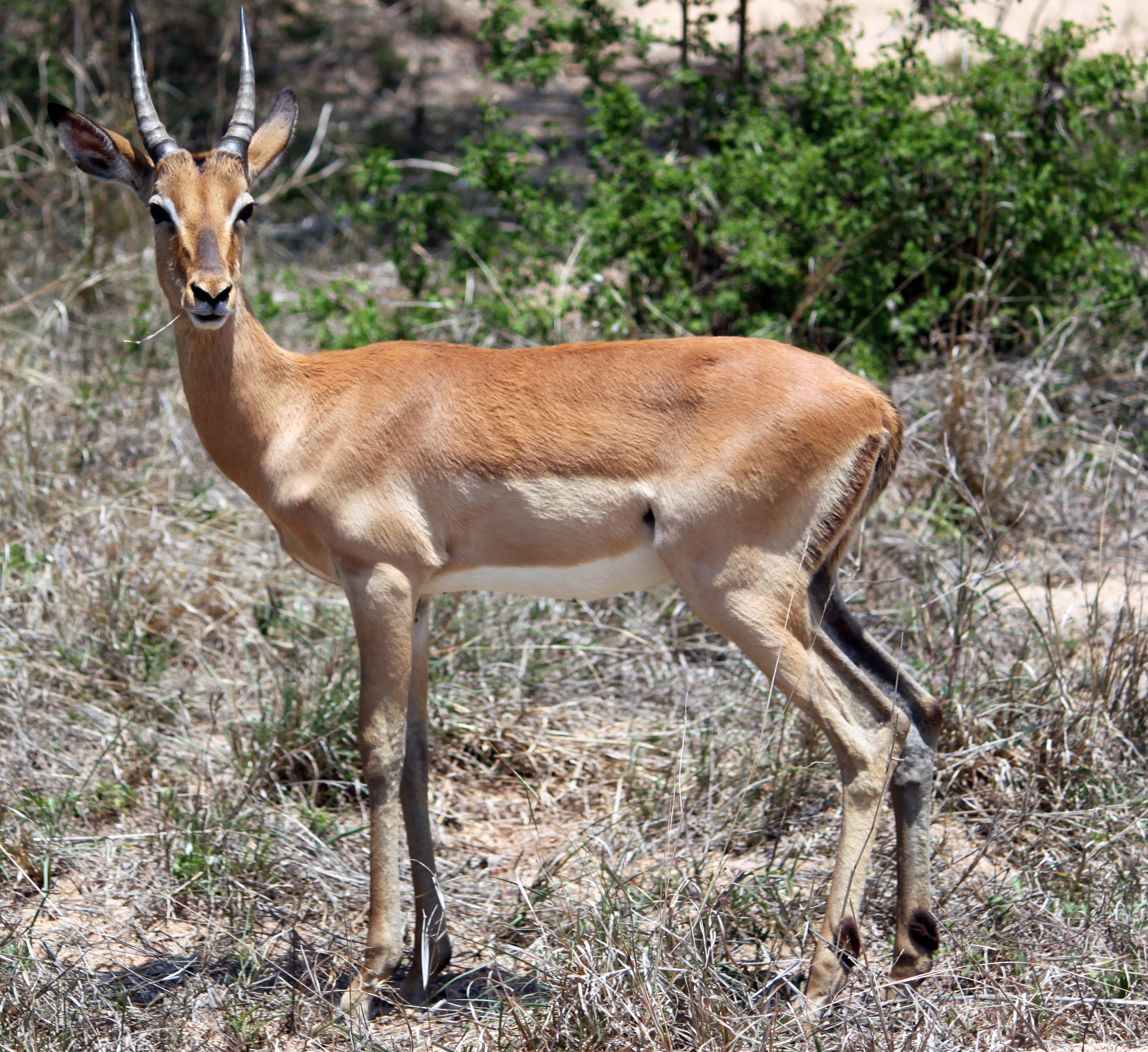 Kruger National Park: male impala (Aepyceros melampus)